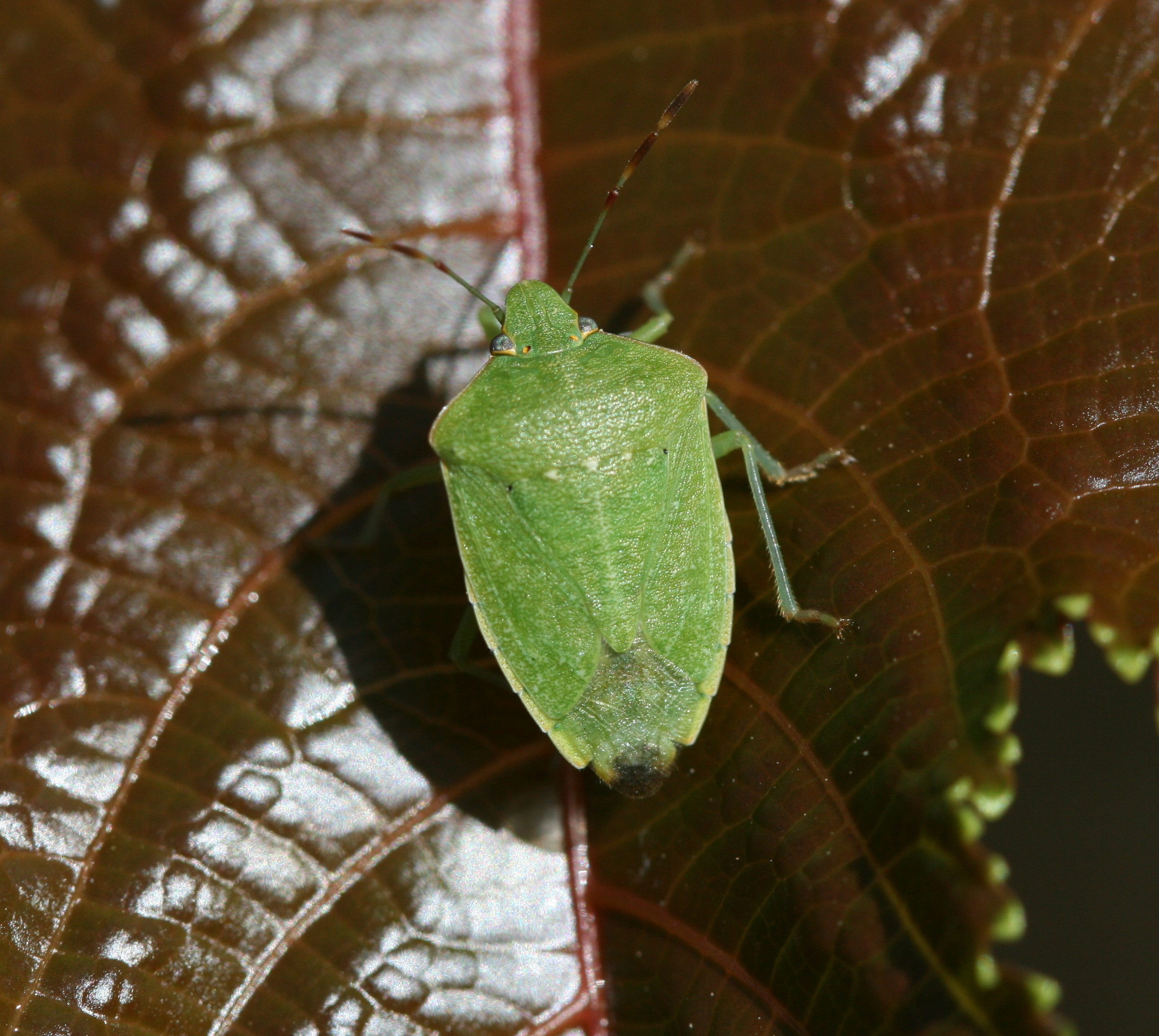 Southern Green Shieldbug male. Callao Salvaje, Tenerife